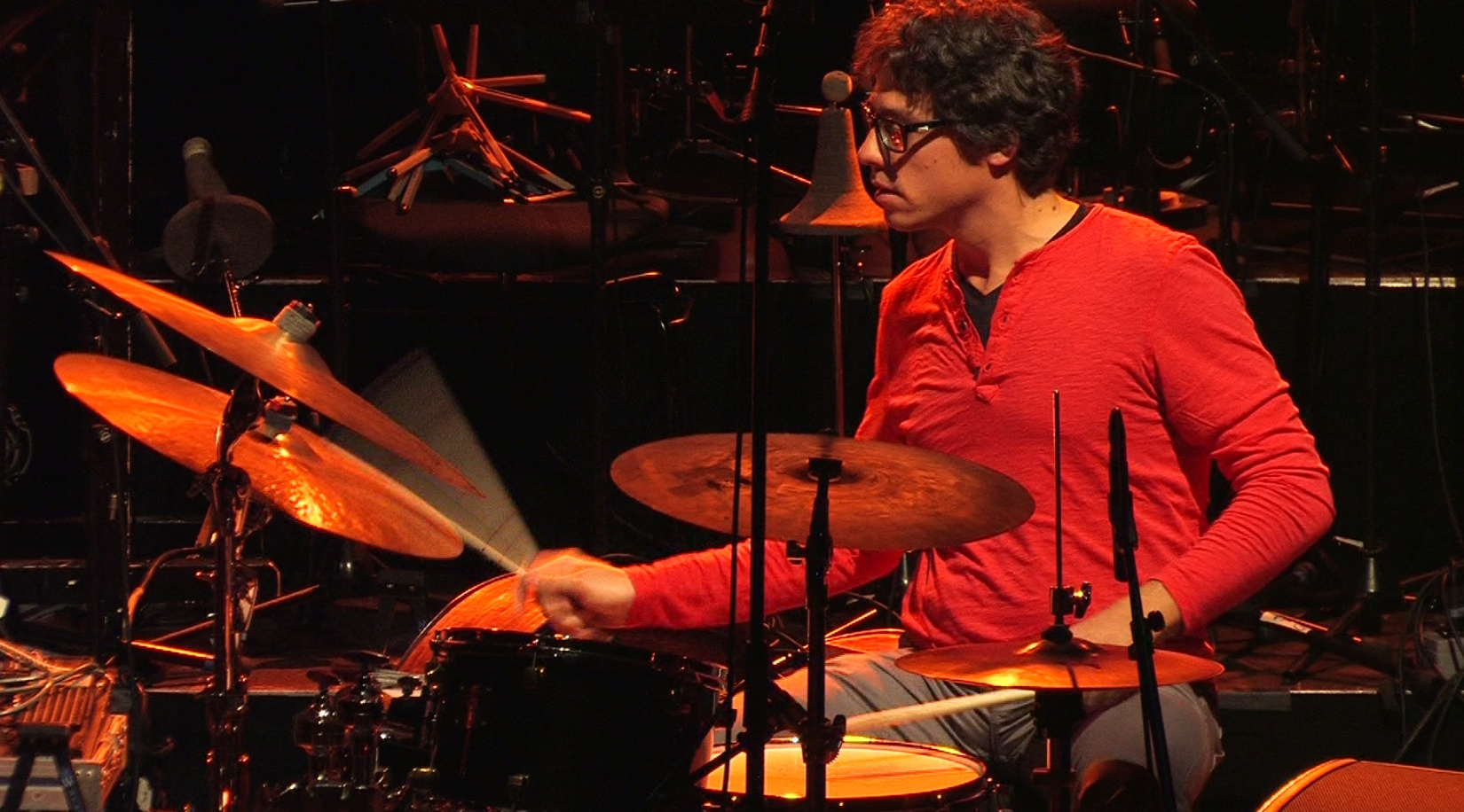 Kai Bussenius